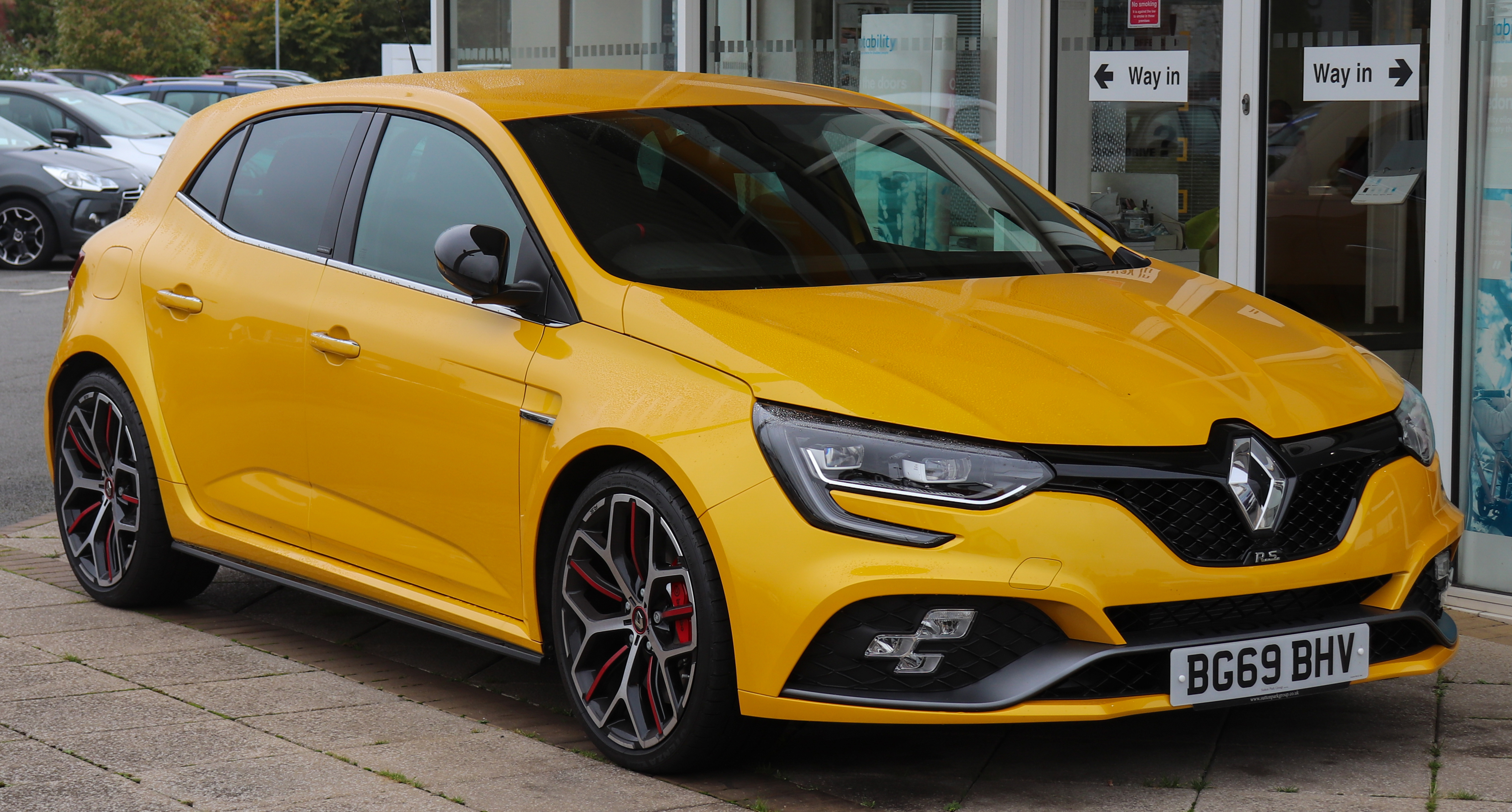 2019 Renault Megane R.S. 300 Trophy 1.8 Front Taken in Leamington Spa